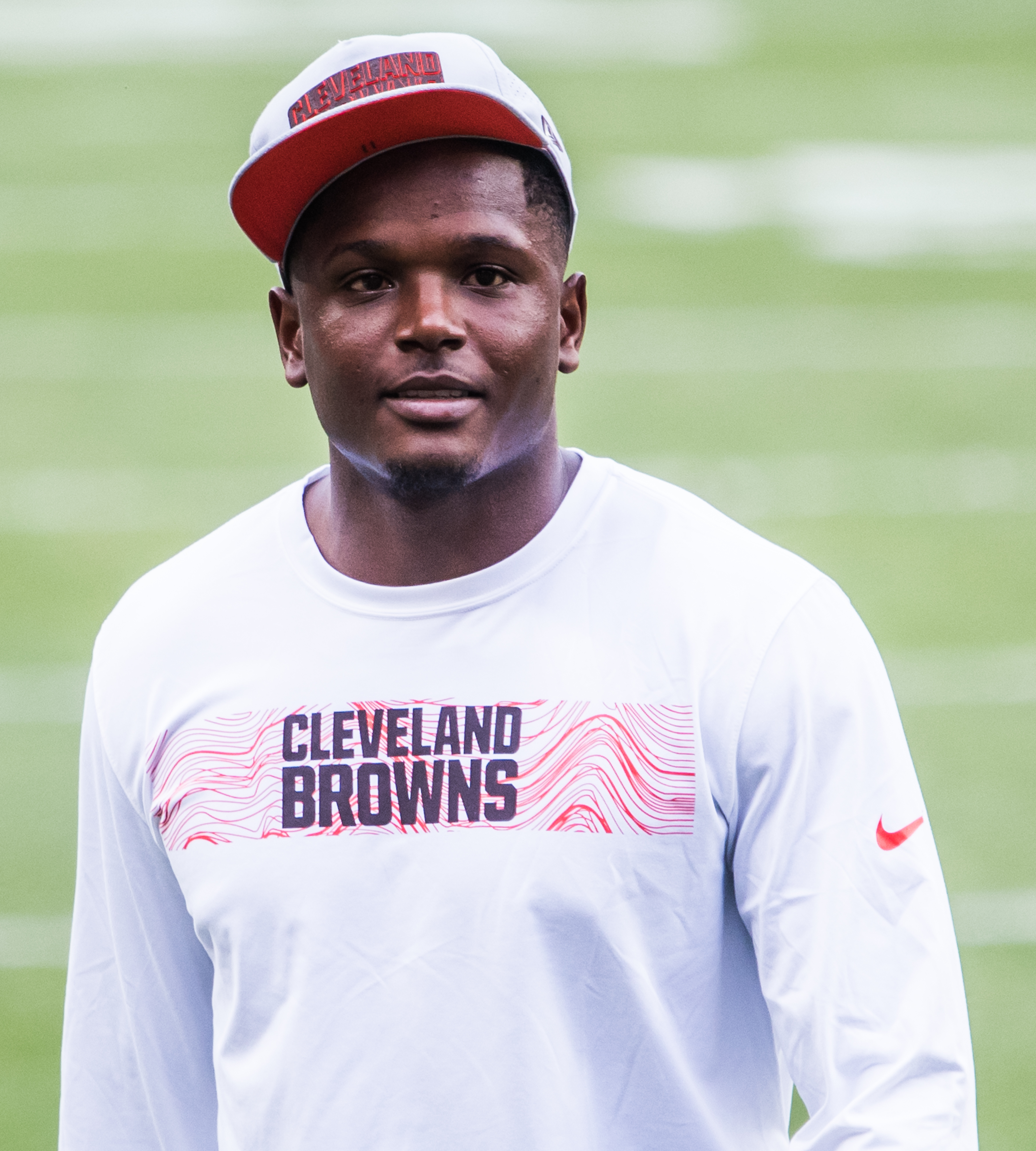 Antonio Callway